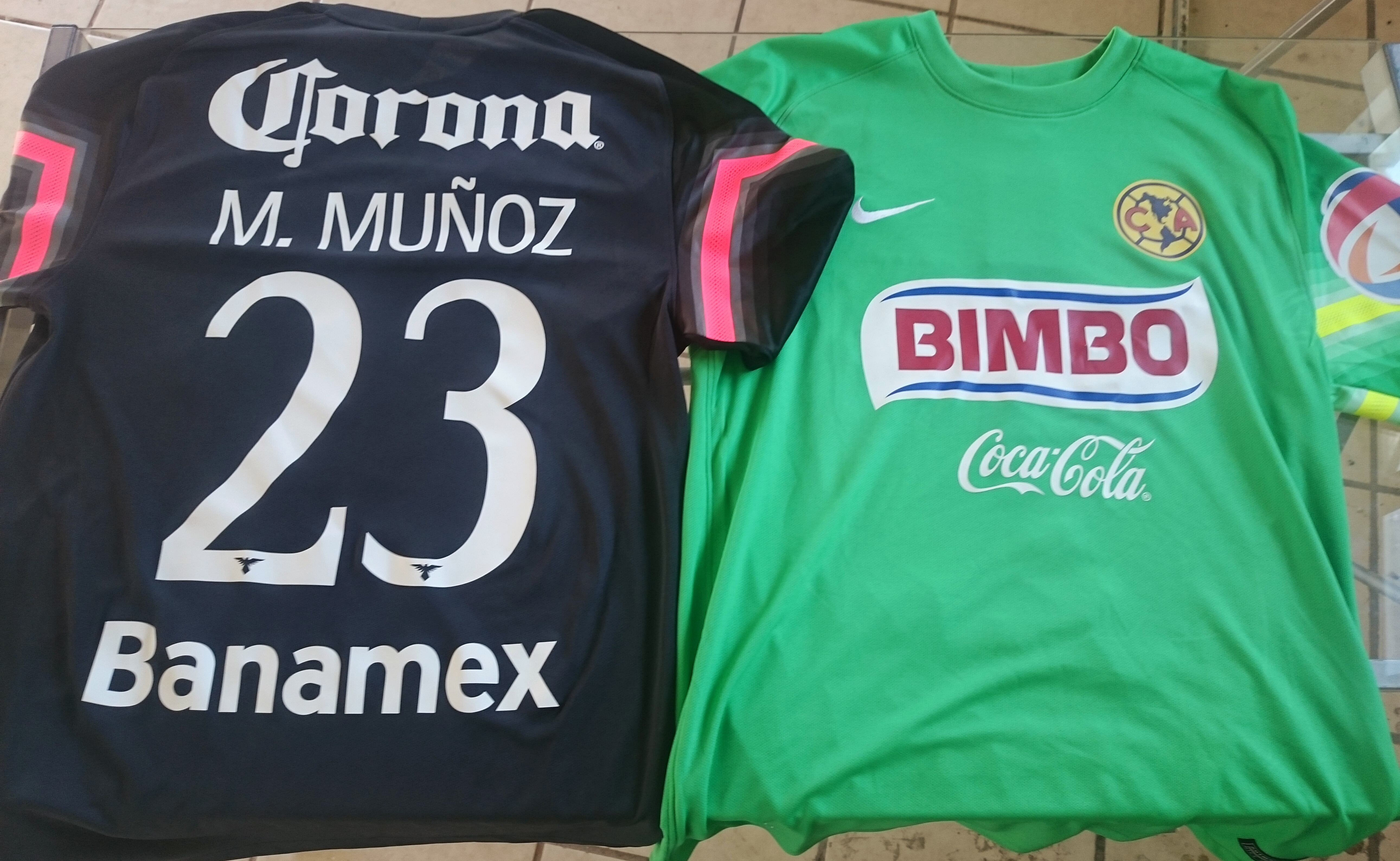 Replicas of the uniforms worn by Club América goalkeeper Moisés Munoz in the AP 2014 CL 2015 season